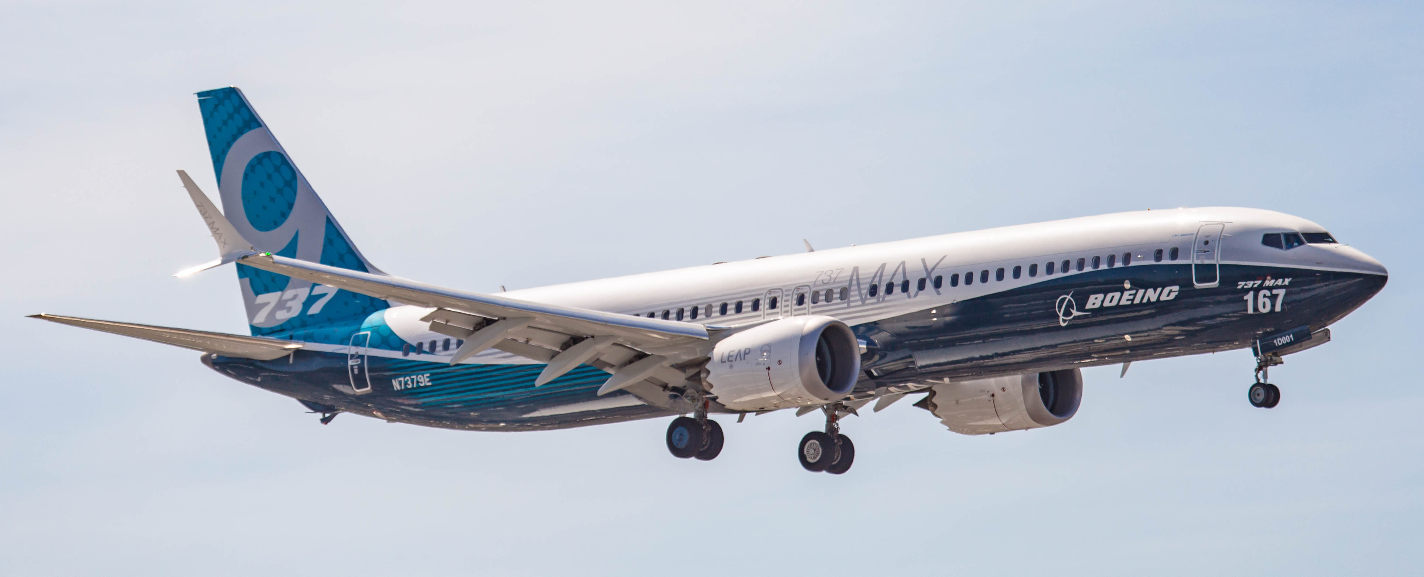 Boeing 737 MAX 9 at Paris Air Show 2017